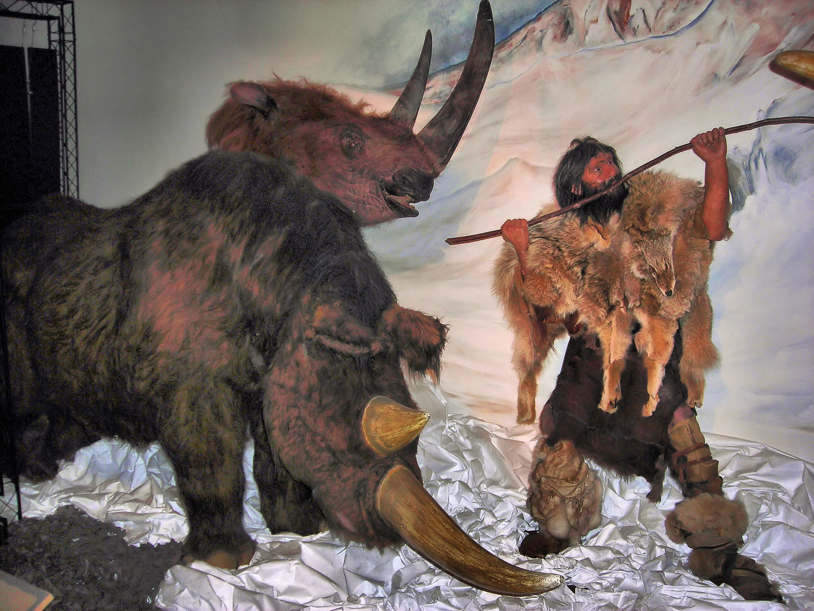 Walk With Beasts exhibition - Horniman Museum, London. The Woolly Rhinoceros (Coelodonta antiquitatis) is an extinct species of rhinoceros that lived during the Pleistocene epoch, but survived the last ice age. The woolly rhinoceros are members of the Pleistocene megafauna. It lived on the northern steppes of Eurasia, where its relative the Giant Unicorn (Elasmotherium) had a more southern range. It had a flat horn that enabled it to push aside snow in order to graze. The Woolly Rhino also had thick fur and a layer of thick fat to keep it warm from the cold conditions it endured.